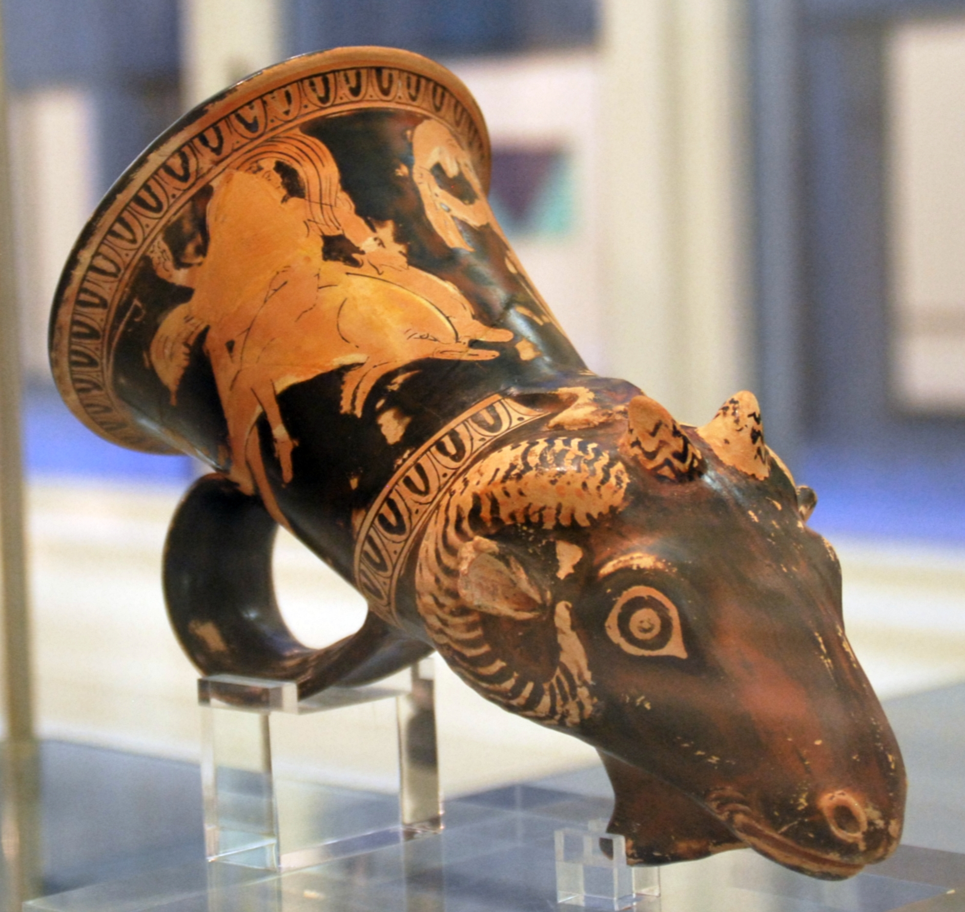 Apulian red-figure ram-head rhyton of the Perrone-Phrixos Group: Nereide rides on a dolphin, to the right Skylla. 340/30 BC. Antikensammlung Kiel, inventory number B 895.